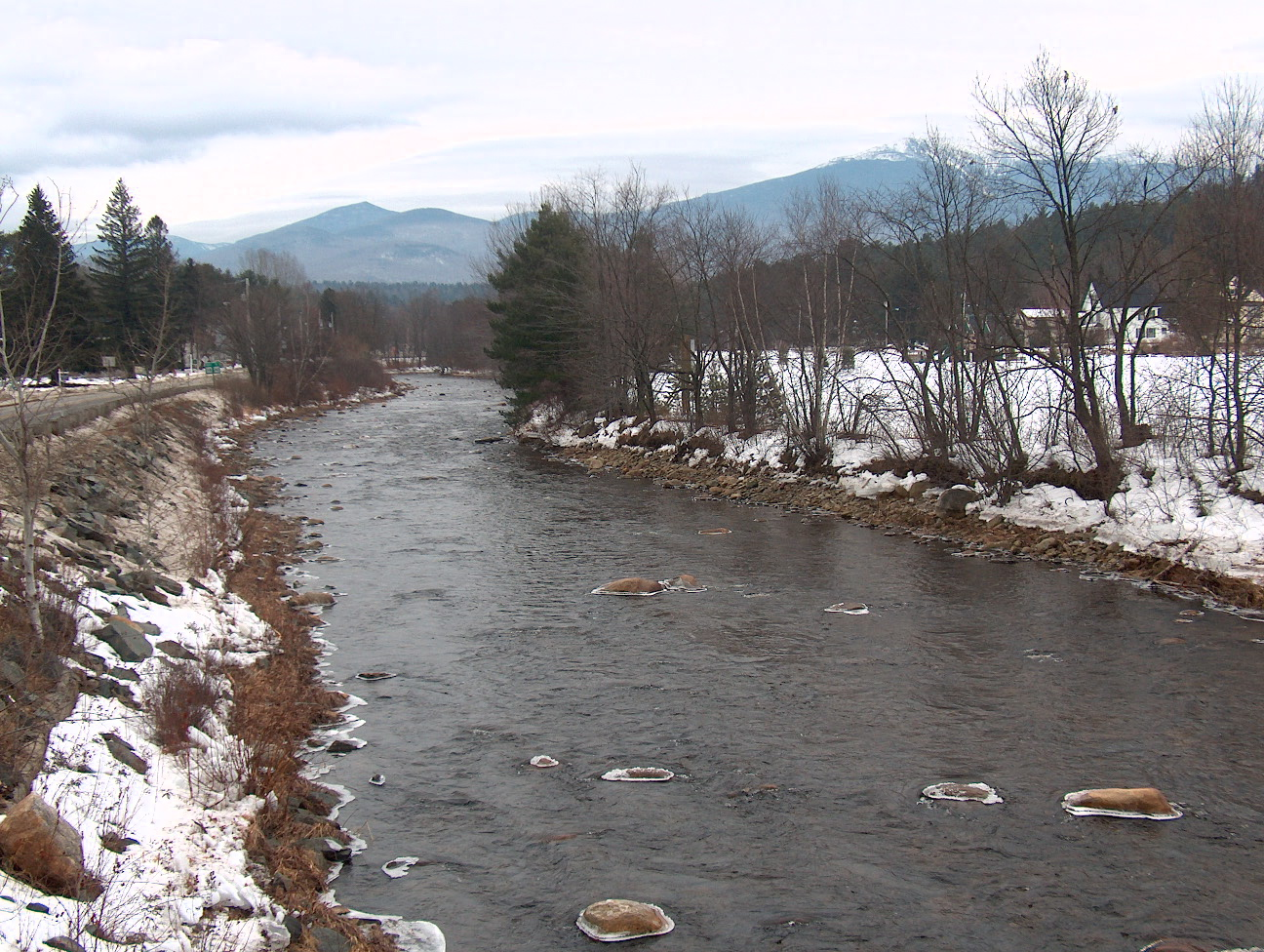 The Gale River in Franconia, New Hampshire. Photo by Ken Gallager, Dec. 27, 2007.